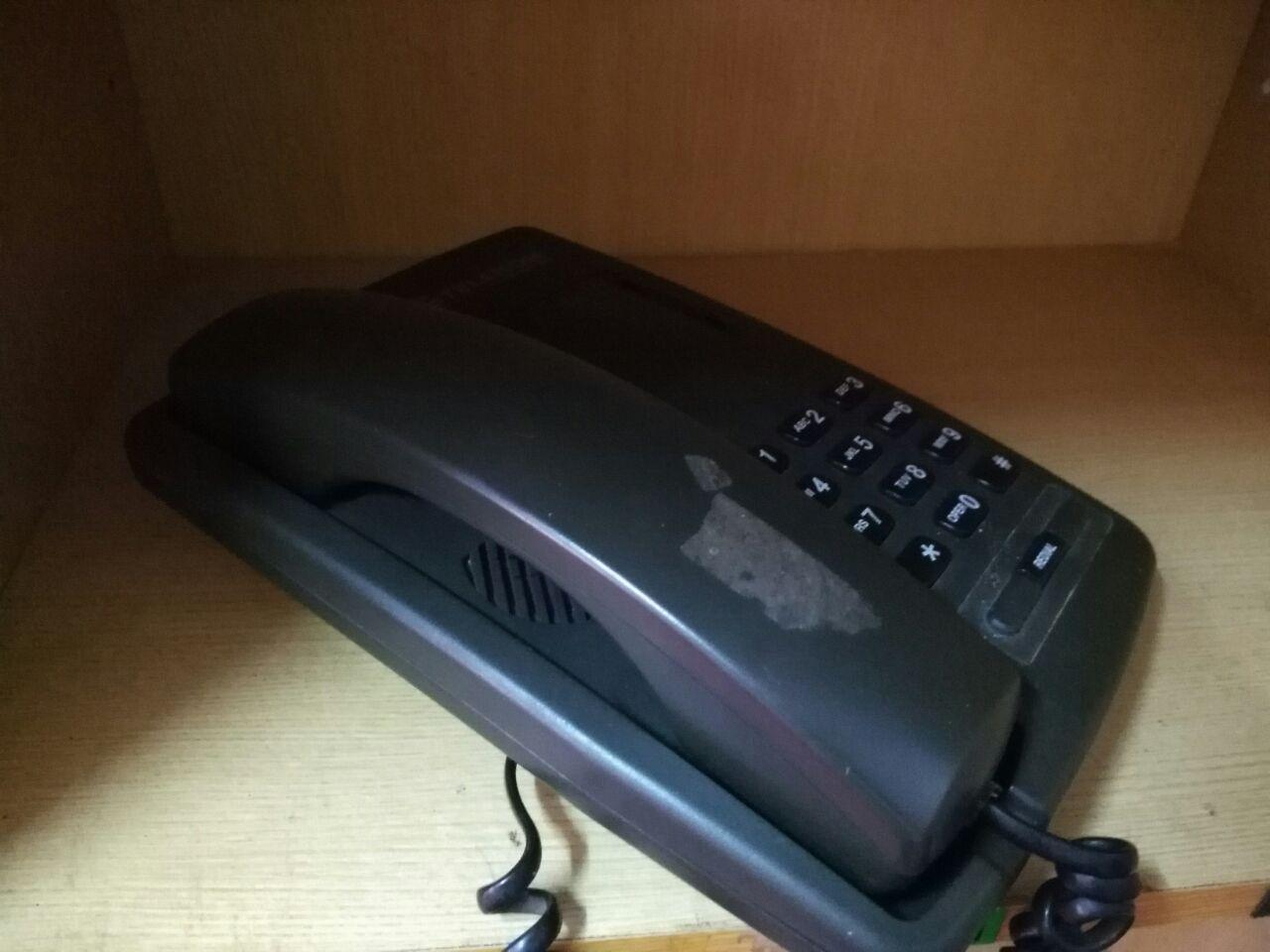 Telefon